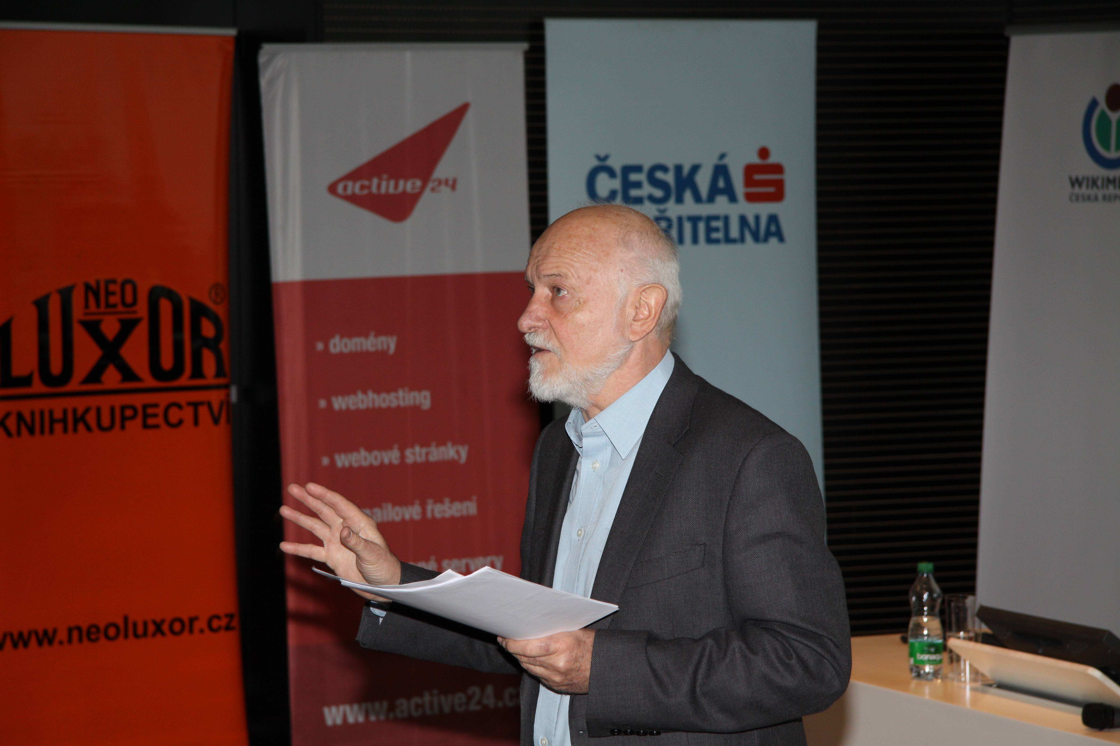 Czech Wikiconference 2011 in Prague